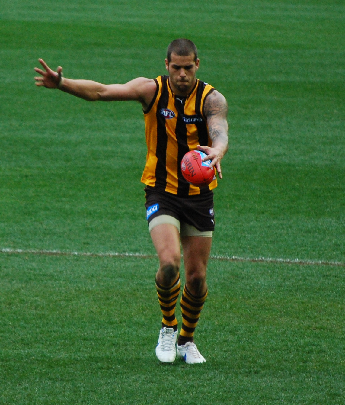 Lance Franklin playing for Hawthorn Hawks taken at the MCG playing against Port Adelaide (Round 21, 2011)